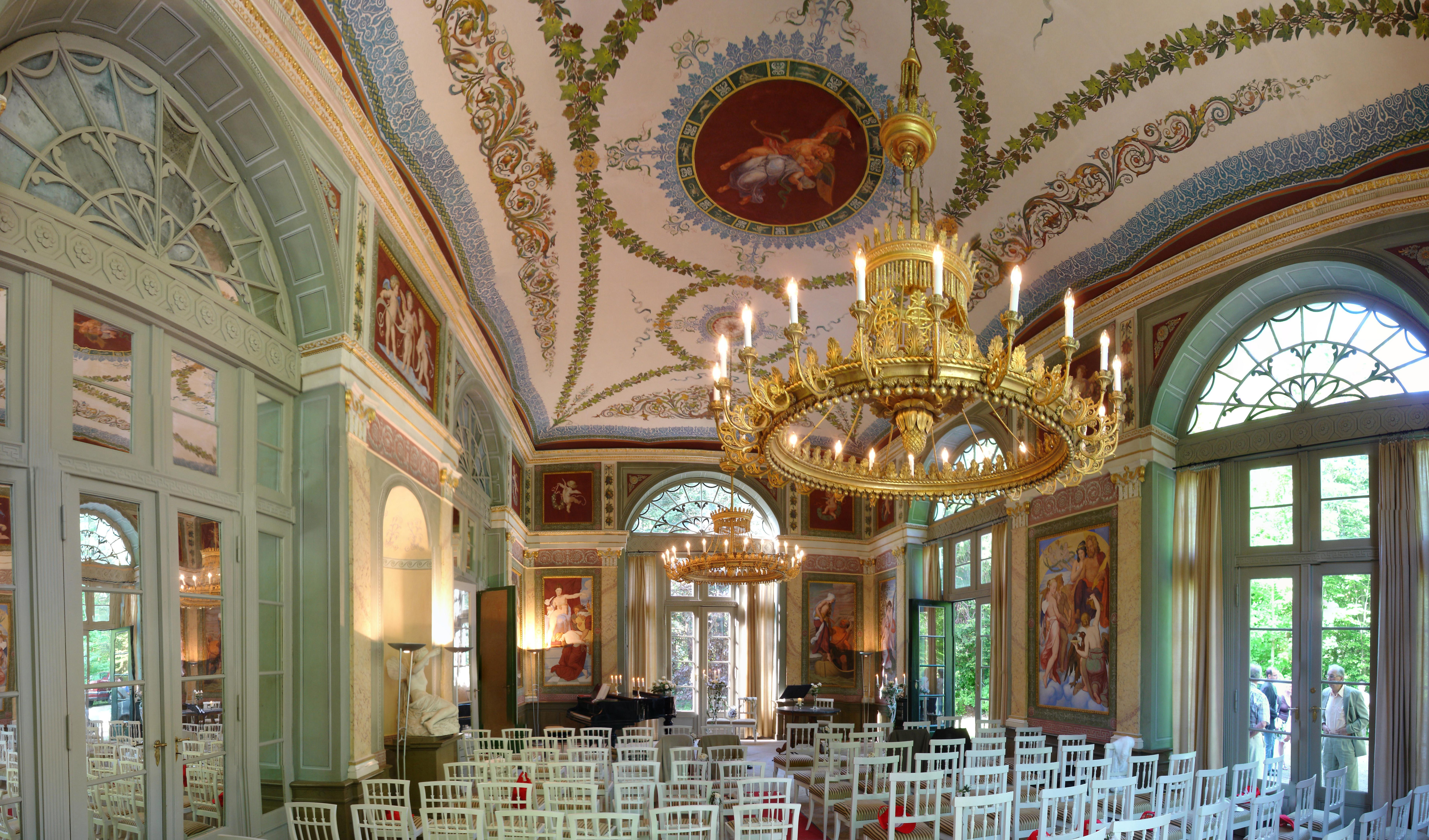 Corona (lighting device) in the Schwind pavilion, Rüdingsdorf, Germany